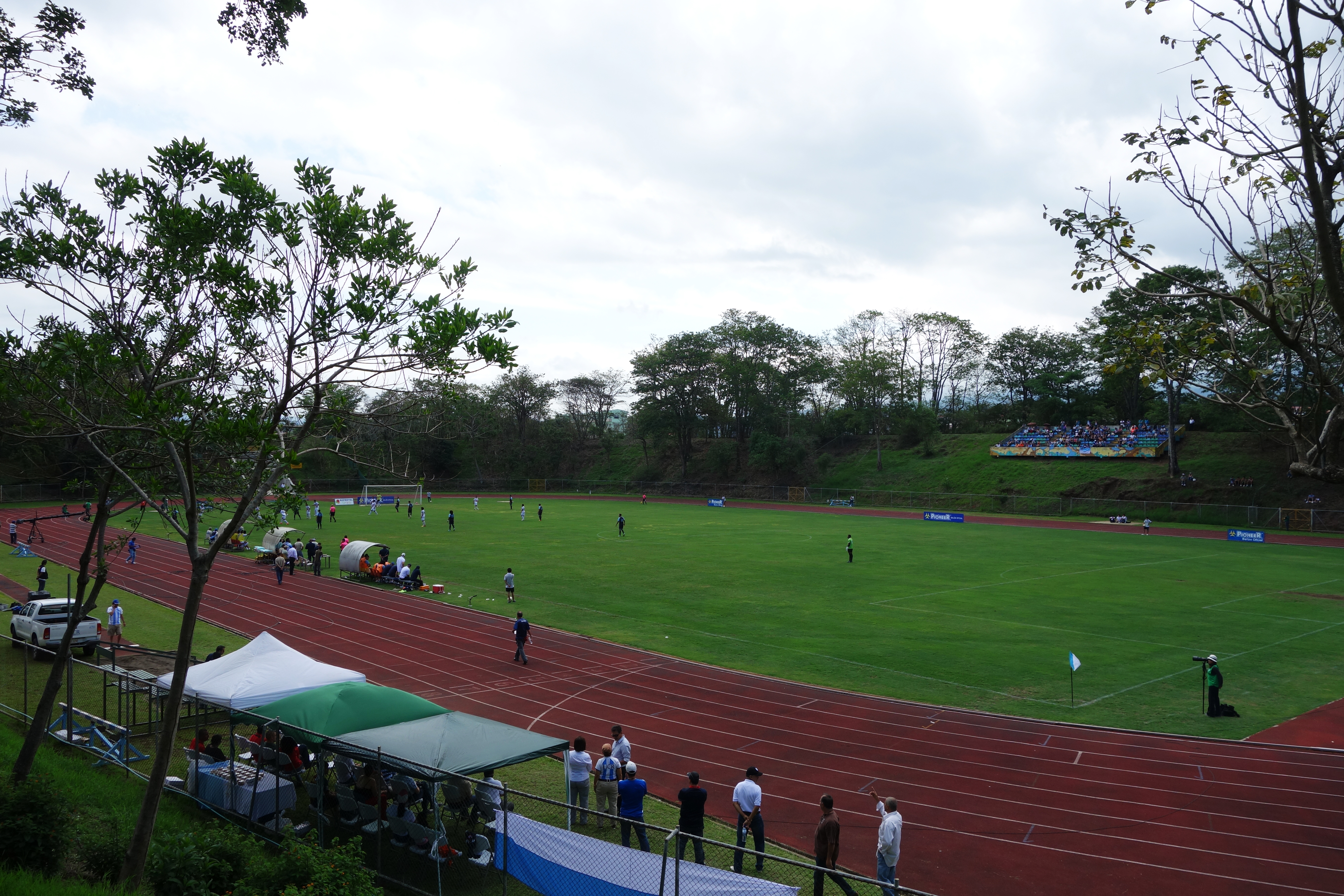 Estadio Ecológico in Montes de Oca in Costa Rica during the first final of Liga de Ascenso Verano 2013 between CF Universidad de Costa Rica and AS Puma Generaleña